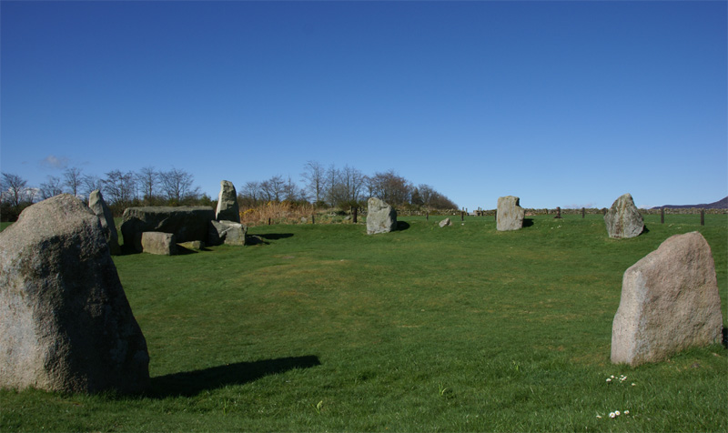 Easter Aquhorthies Stone Circle, Aberdeenshire, Scotland